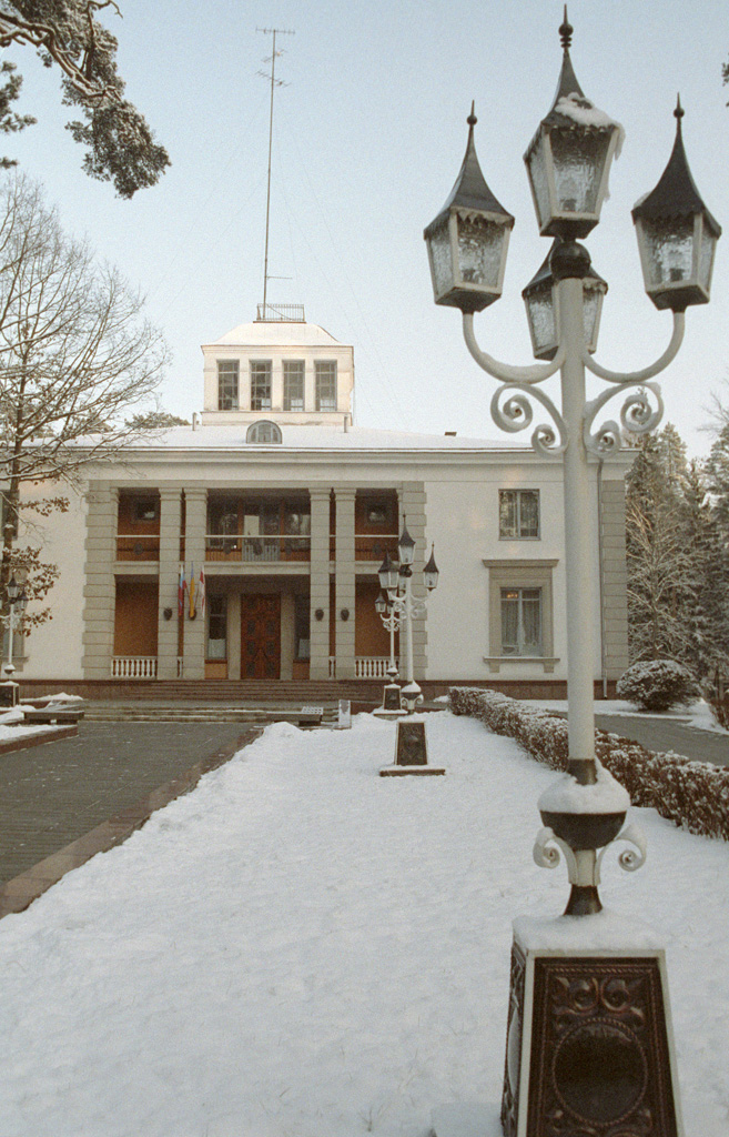 “Agreement on the setup of the CIS was signed in this building”. Agreement on the setup of the CIS was signed in this building. Belovezhskaya Pushcha, Viskuli; December 8, 1991.